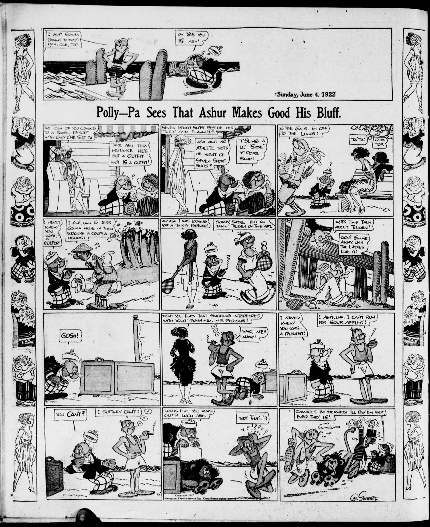 June 4, 1922, episode of Barney Google by Billy DeBeck